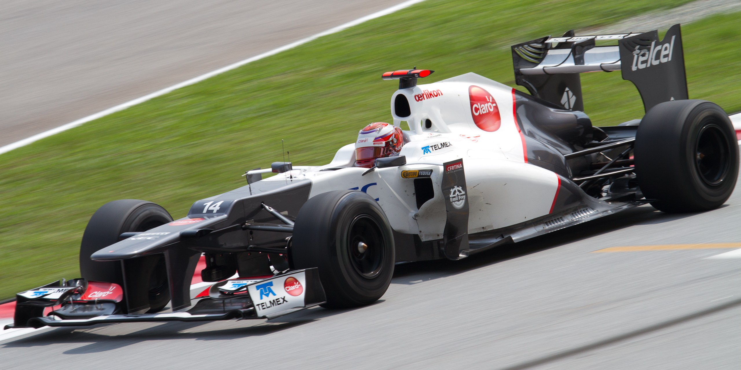 Formula One 2012 Rd.2 Malaysian GP: Kamui Kobayashi (Sauber) during the first practice session on Friday.